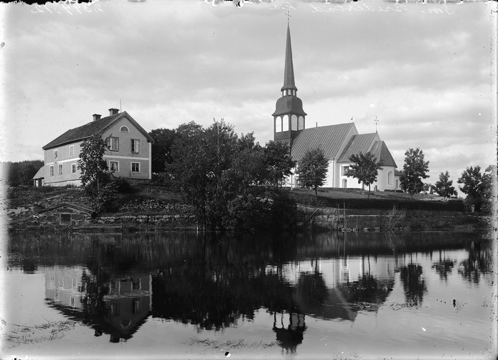 Bredestad Church, with its oldest parts from the 12th century. The tower is from the 17th century.